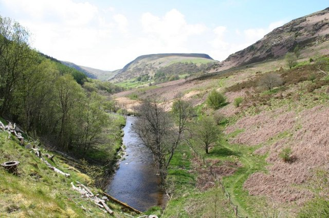 View from the top View of the valley by Gamallt with the Afon Marteg flowing towards the river Wye and Moelfryn in the distance.